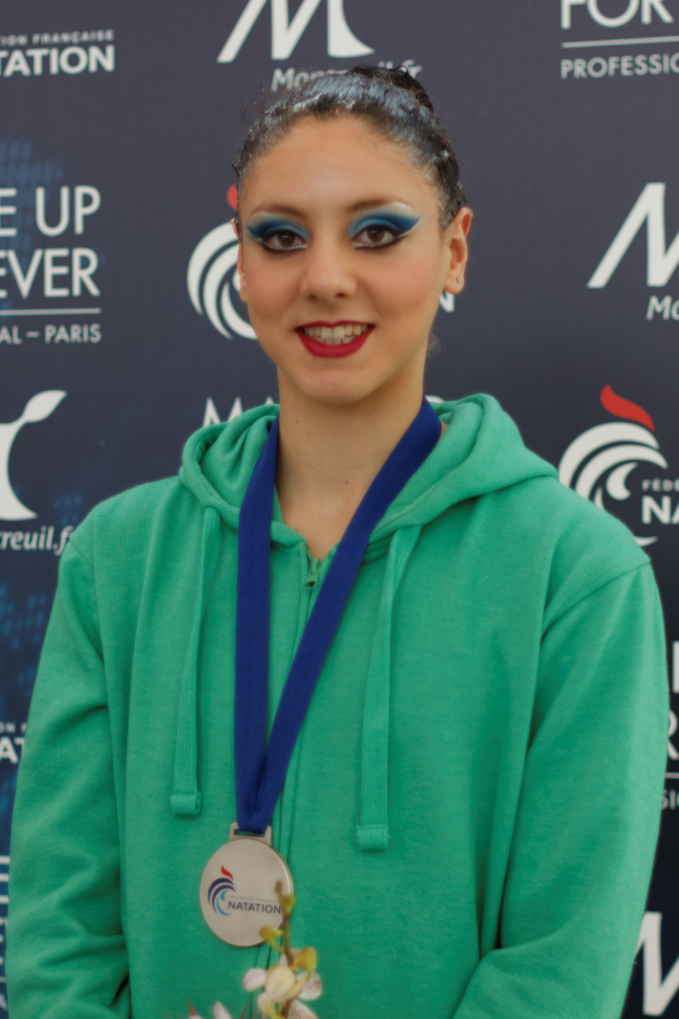 Podium of the technical solo routine at the French Open in Montreuil, March 15, 2013. 1. Yukiko Inui, 2. Linda Cerruti, 3. Etel Sanchez. Linda Cerruti.